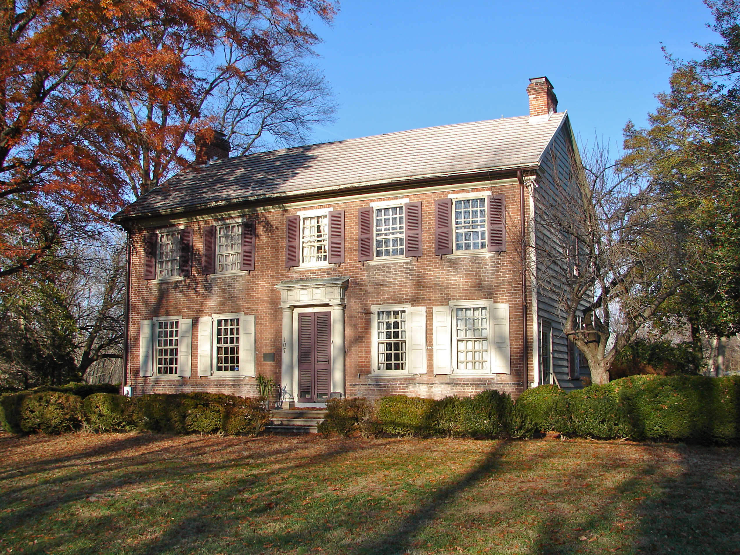 John Lewden House on the NRHP since September 24, 1979. At 107 E. Main St., Christiana, Delaware.